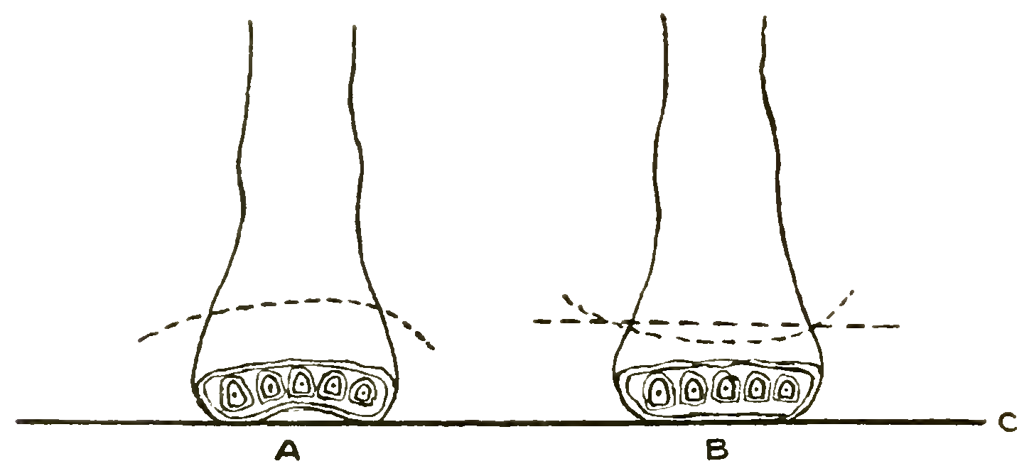 Cross section of feet showing metatarsal bones forming anterior [transverse] arch. A shows formation of anterior arch by distal ends of metatarsal bones. Note convexity of instep, dotted line indicating integrity of arch and concavity formed on the plane C. B shows fallen anterior arch. Note flat or convex instep, dotted line and absence of concavity on the plane C.